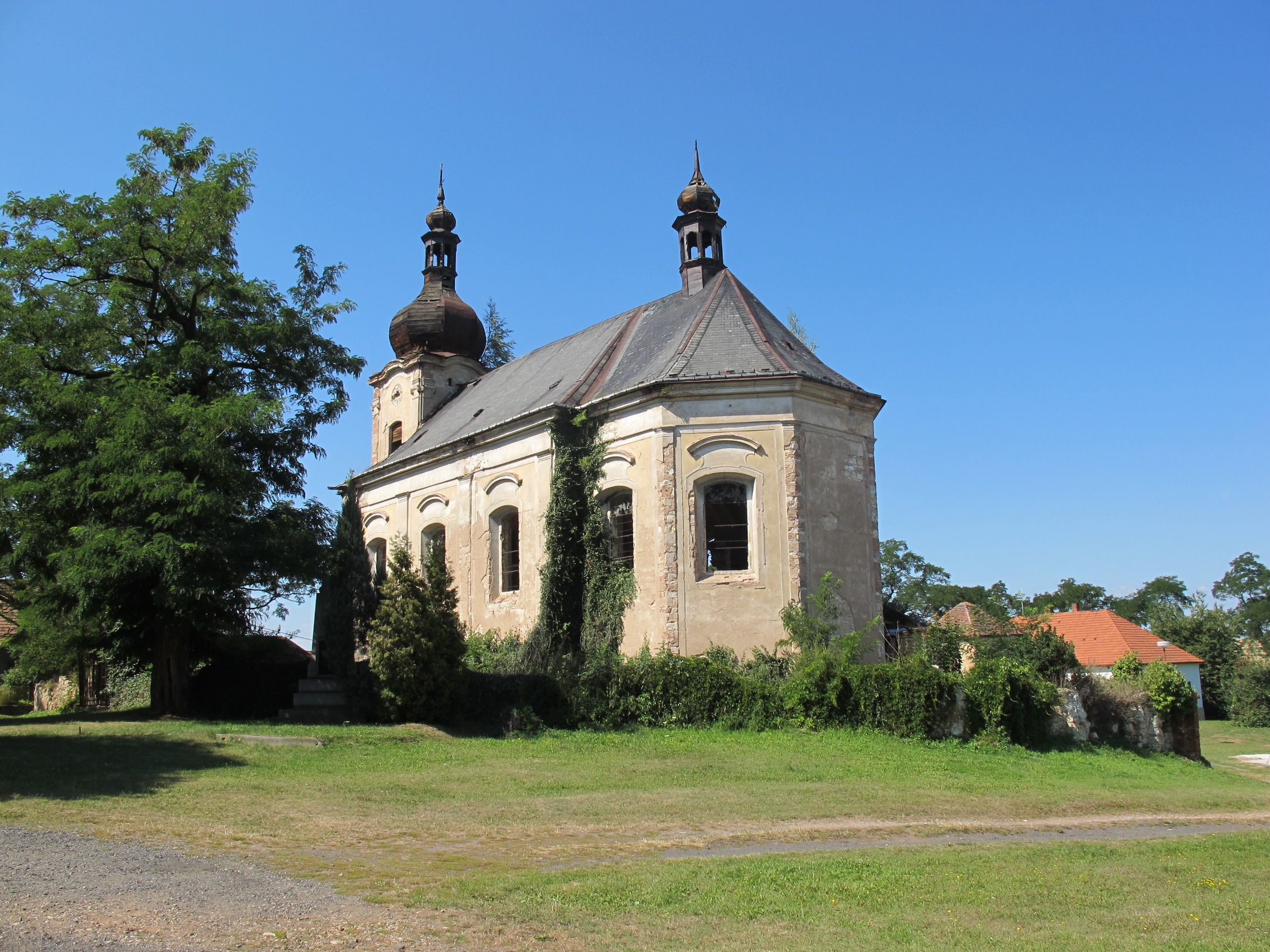 Church from 1750 in Siřem, Czech Republic